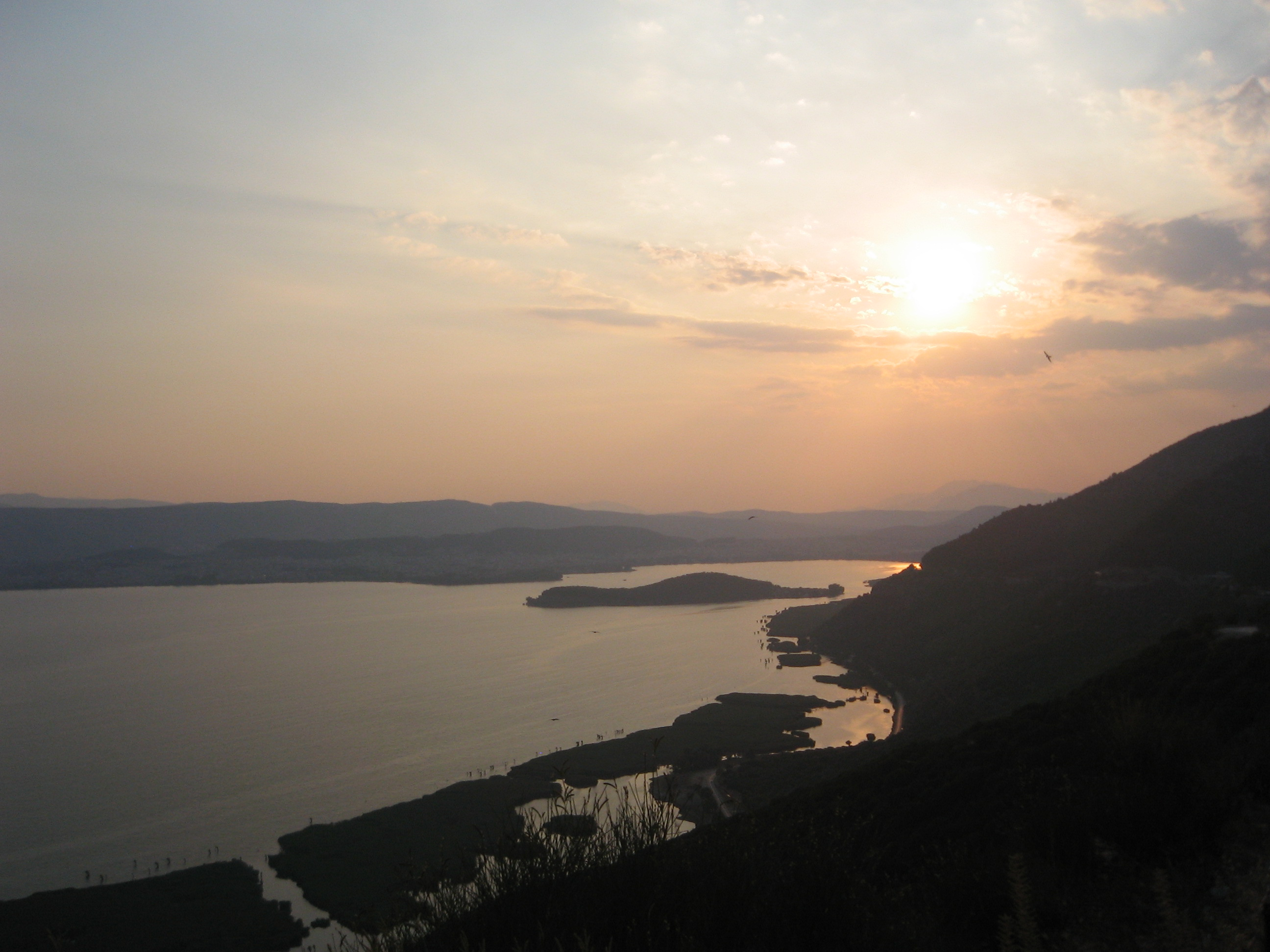 View on Ioannina